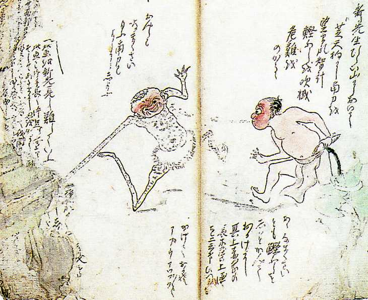 Shibaten (シバテン, a kind of kappa from Shikoku) from the "Shinsensei ichidaiki" (新先生一代記, Japanese picture)